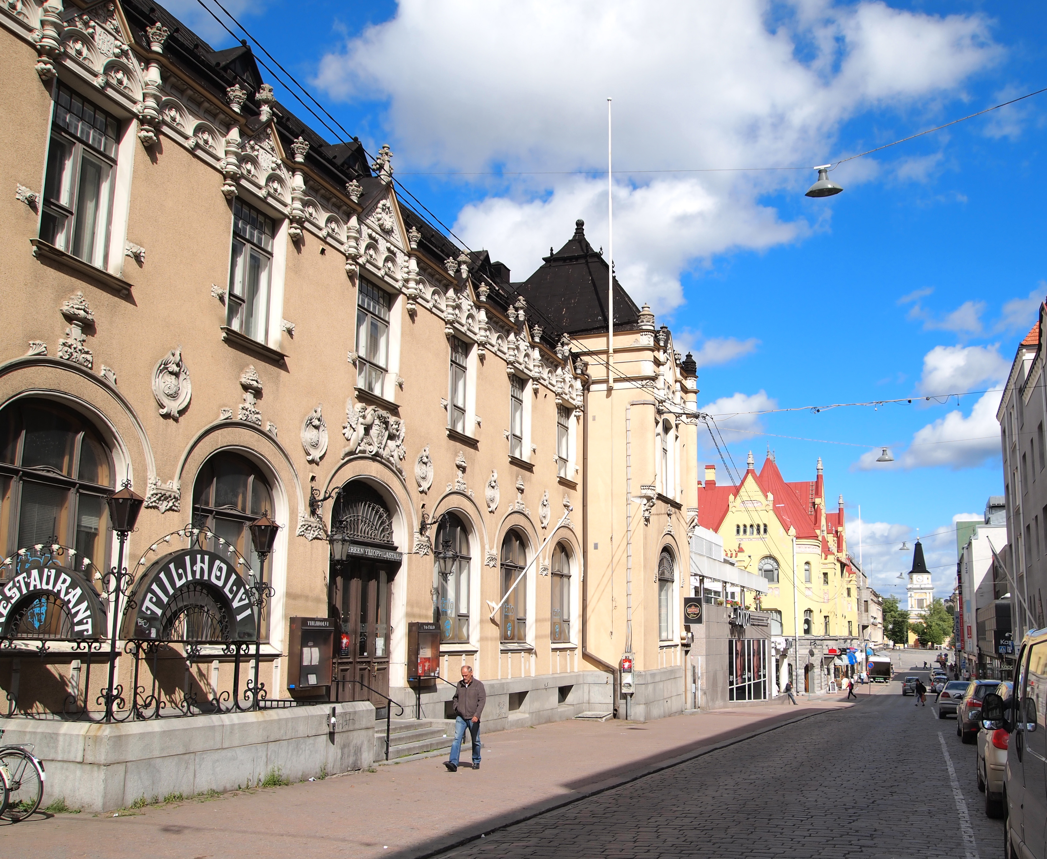 View along the street Kauppakatu in Tampere. This photograph was taken with an Olympus E-PL1